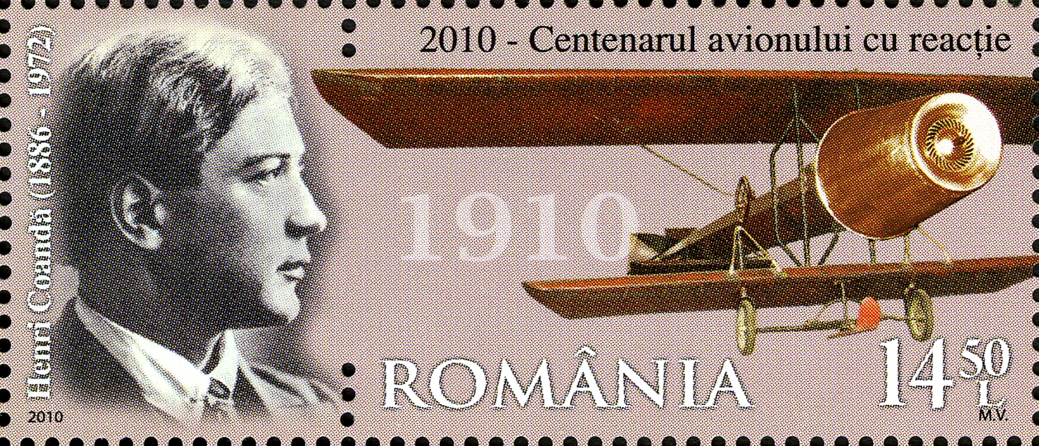 Stamps of Romania, 2010